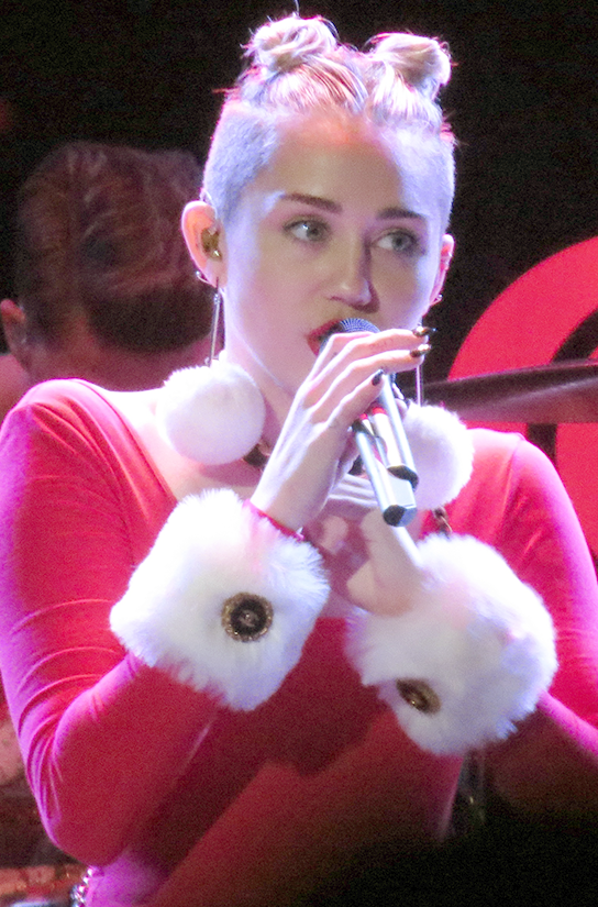 Miley Cyrus performing at 93.3 FLZA’s Jingle Ball 2013 on December 18 in Tampa, Florida.